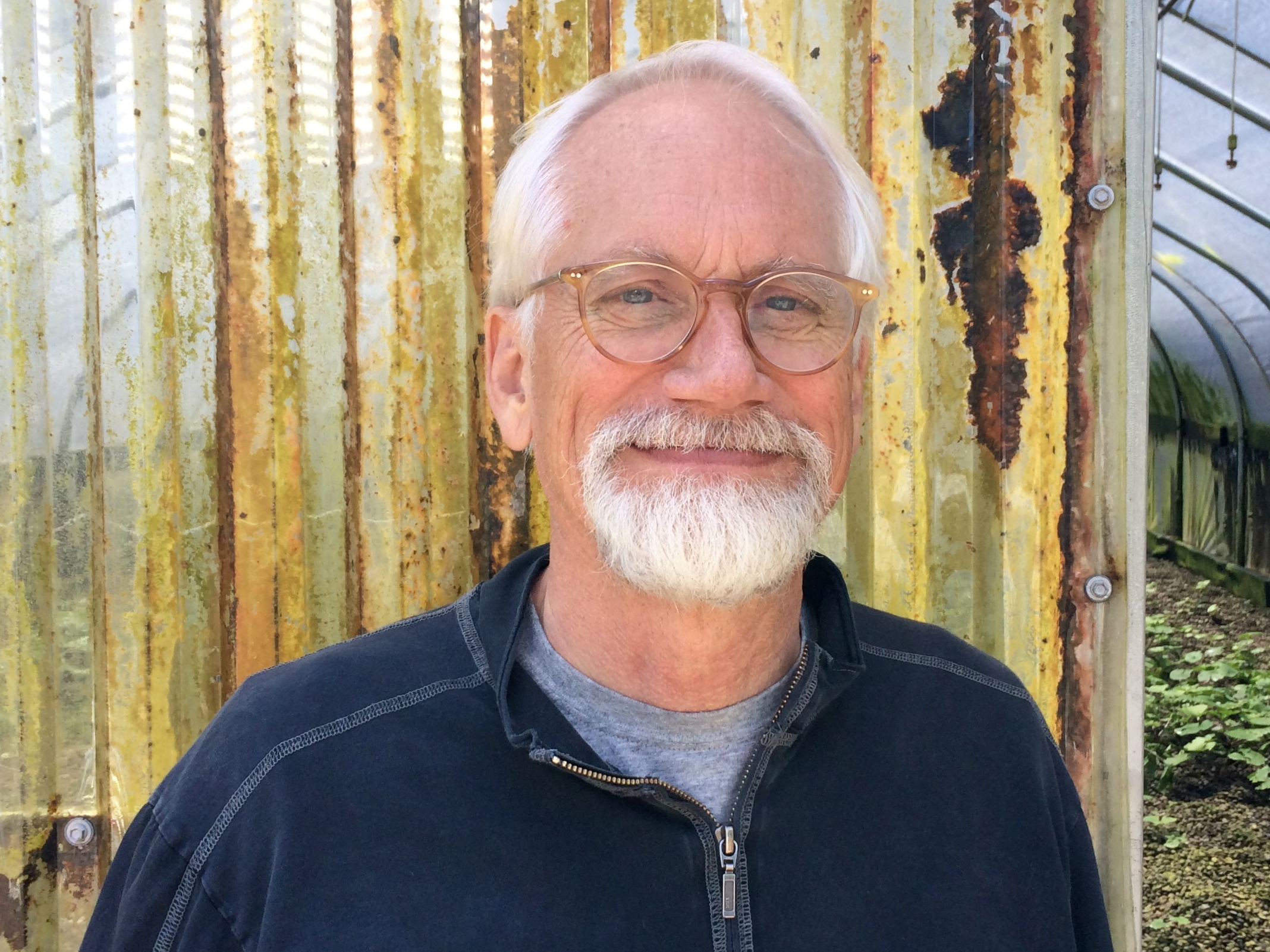 A portrait photograph of American advertising entrepreneur, Dan Wieden.